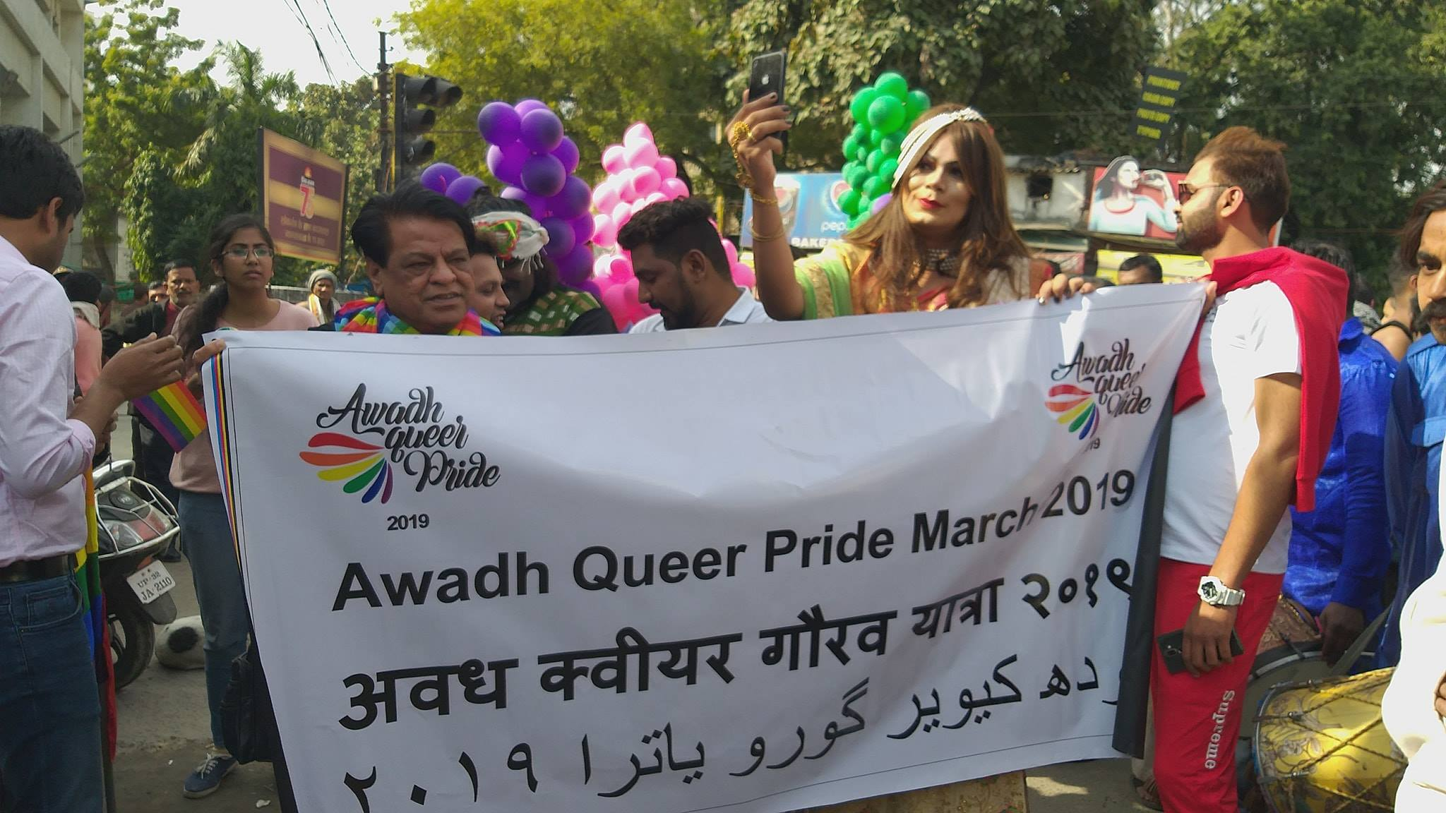 This image is from the Awadh Queer Pride March which annually happens in Lucknow, Uttar Pradesh, India.